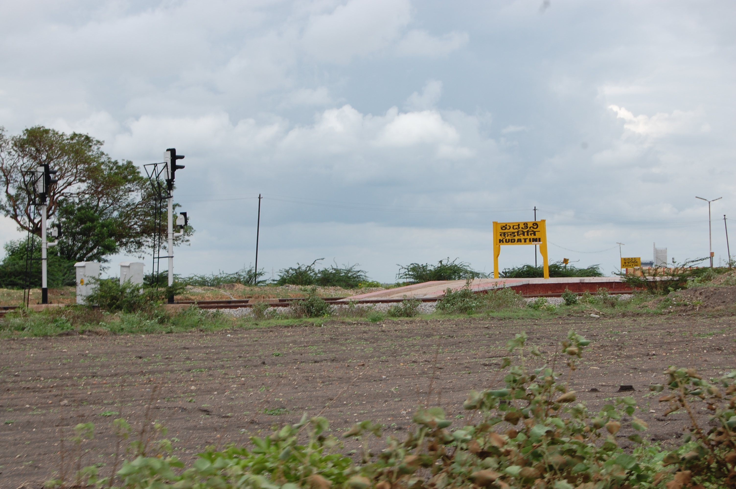 A view of the railway station of Kudatini in Bellary, Karnataka, India.